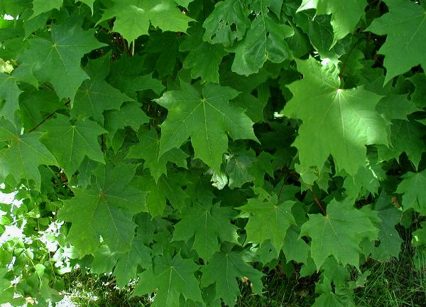 Acer platanoides Leaves